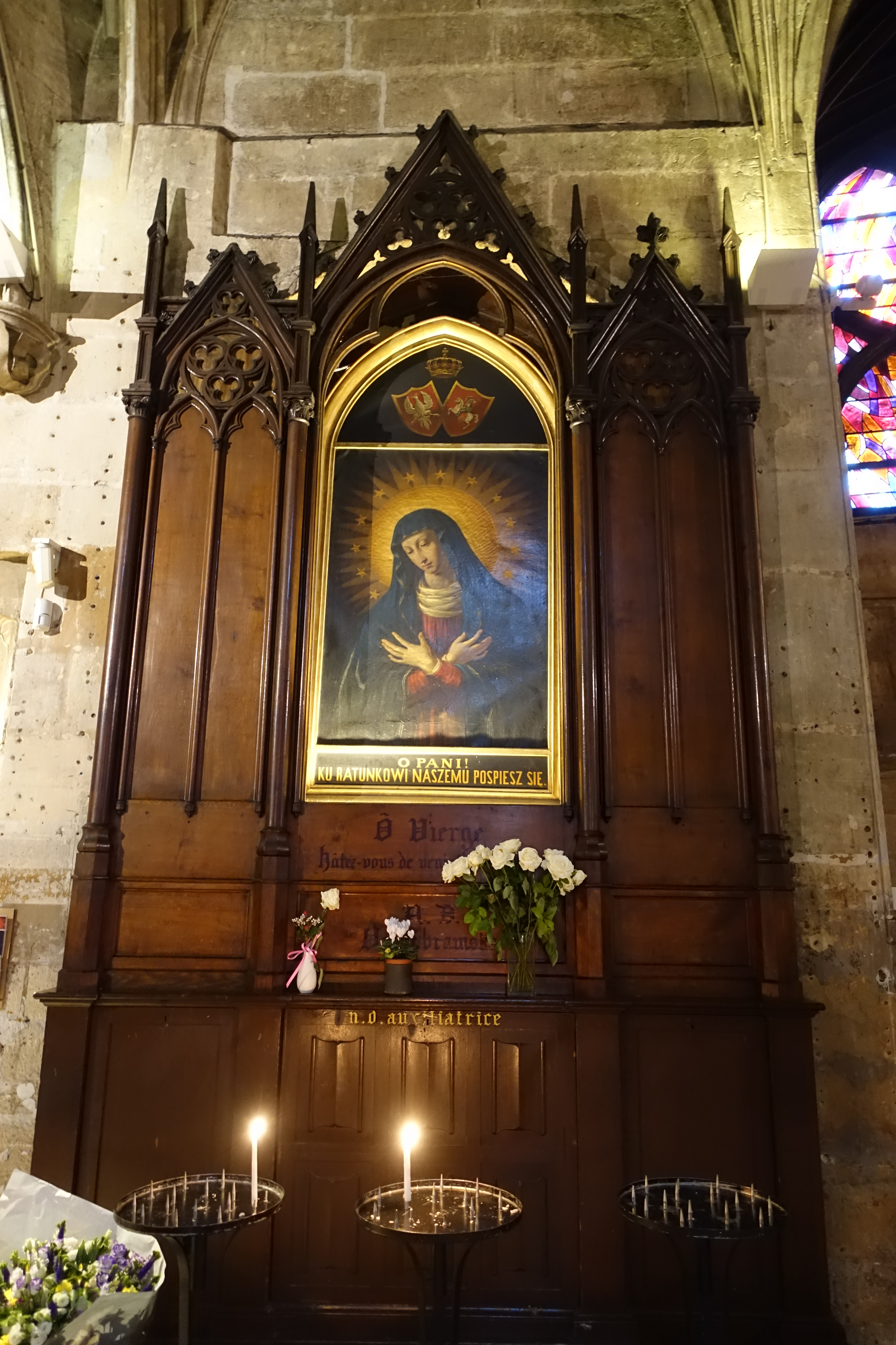 Church of Saint-Séverin, a Roman Catholic church in the Latin Quarter of Paris, located on the lively tourist street Rue Saint-Séverin.